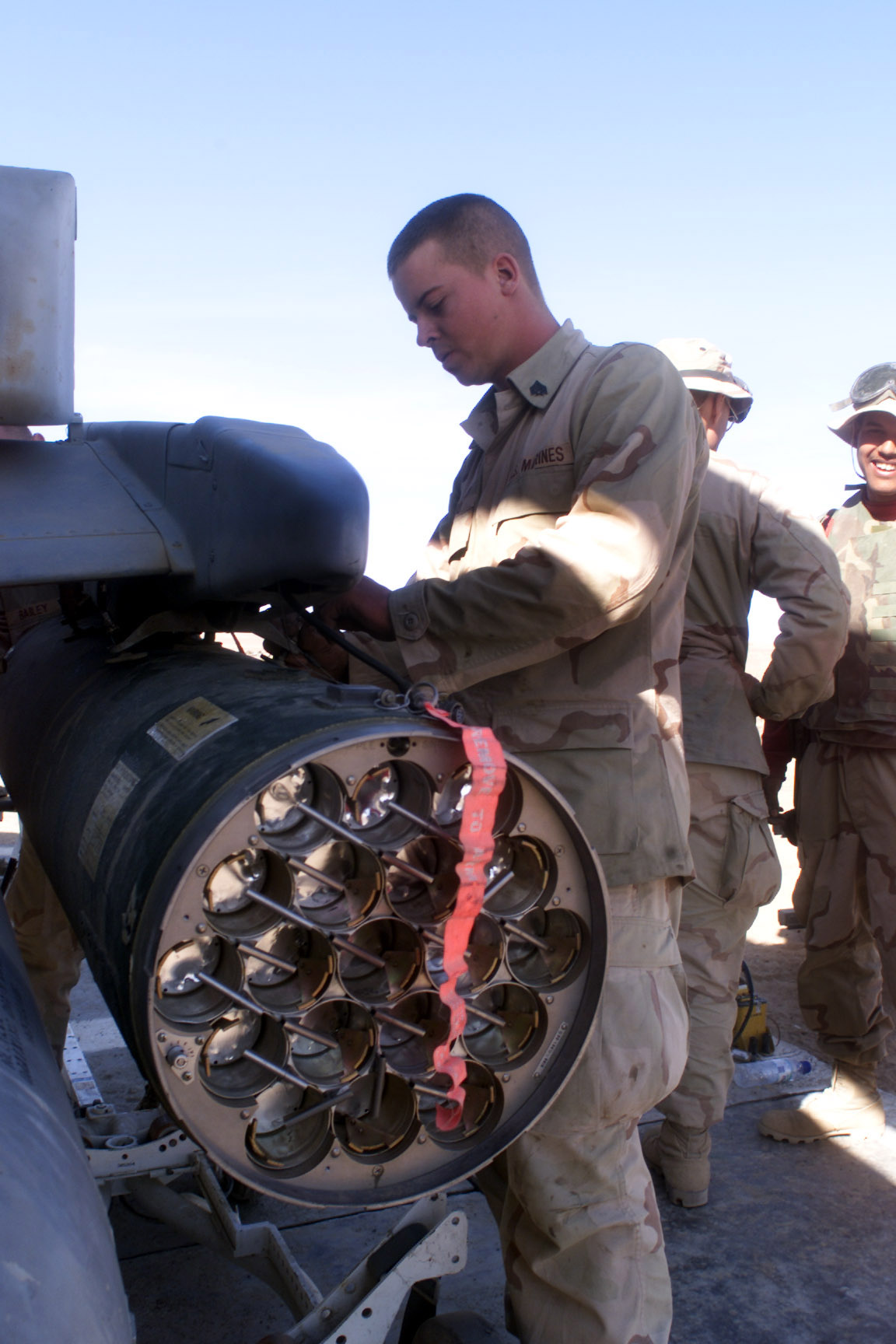 CAMP RHINO, SOUTHERN AFGHANISTAN. An aviation ordnance marine from the 15th Marine Expeditionary Unit (special operations capable) loads a rocket pod onto an AH-1W Super Cobra helicopter before an armed reconnaissance mission here. The 15th MEU (SOC) seized the airfield Nov. 25 to provide a forward operating base to support follow-on missions during operation Swift Freedom.